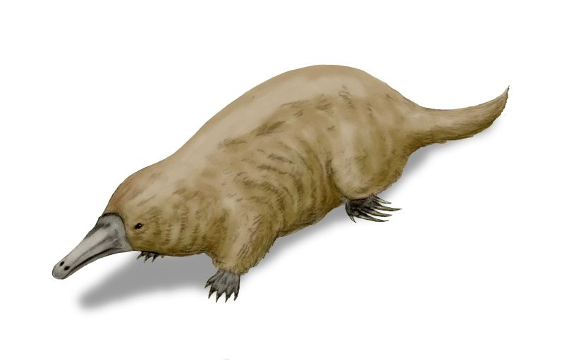 Steropodon galmani, a monotreme from the Early Cretaceous of Australia. The reconstruction is hypothetical as only a portion of the lower jaw with teeth of this animal is known. Pencil drawing, digital coloring